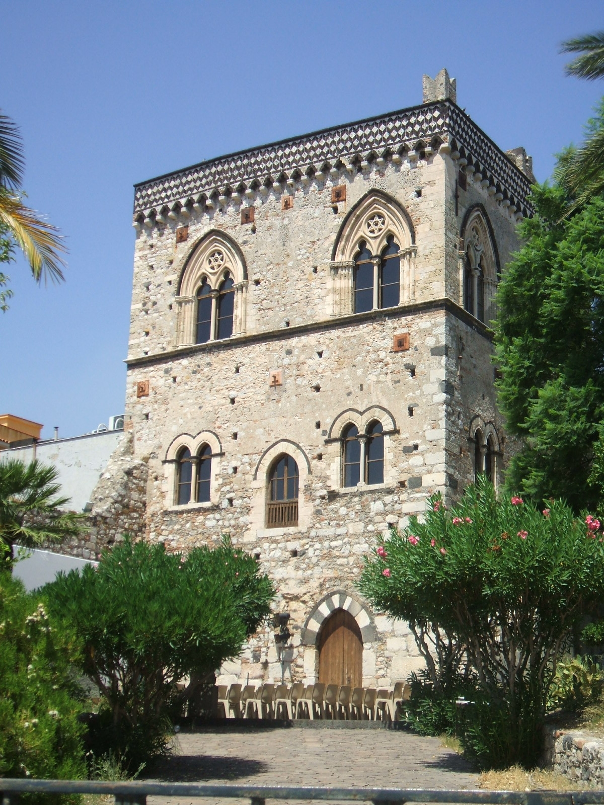 Palazzo Duchi di Santo Stefano of Taormina: gothic palace build in the XIIIth and XIVth centuries, embellished by a limestone and lava frieze.